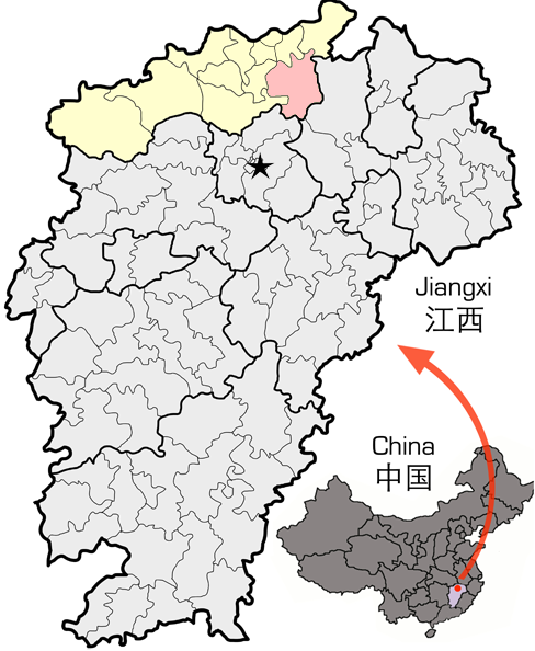 Map showing location of Duchang, Jiujiang in Jiangxi Province China